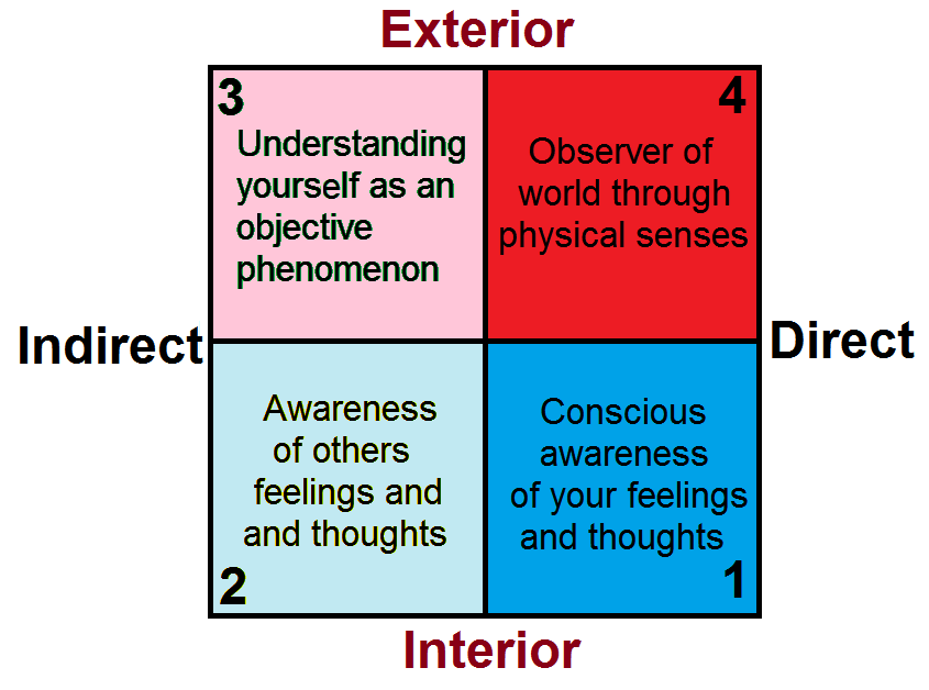 A guilde for the perplexed